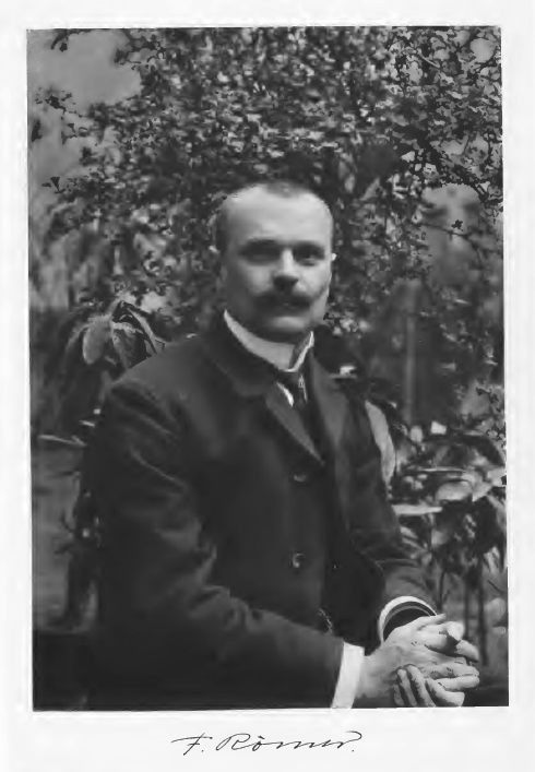 The German zoologist Fritz Römer (1866-1909).